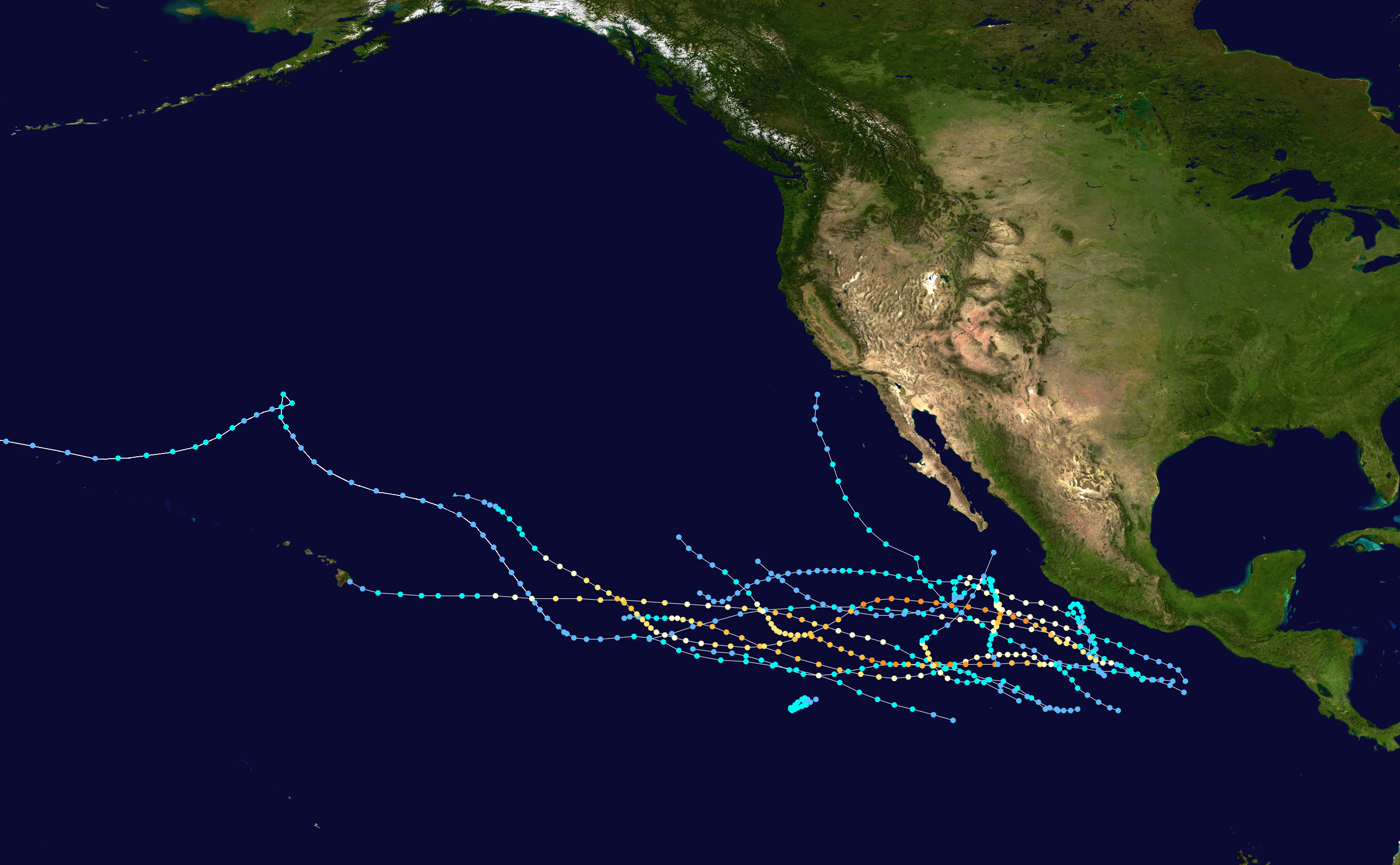 Description